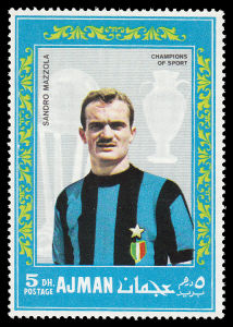 A 1968 Ajman stamp commemorating Inter Milan player Sandro Mazzola.